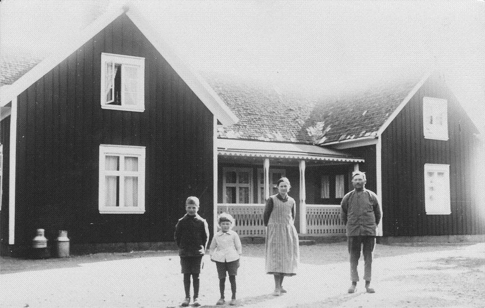 Svartrå #5 Skrabbet, photo from the late 1920's. Pictured are the owner Johan Svensson (1873-1944), his wife Klara Kaspersson (1886-1979) and their sons Arvid (1920-2003) and Rune (born 1923)